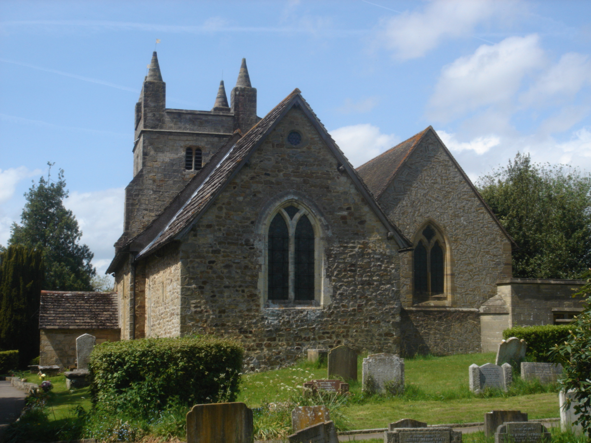 St Mary Magdalene's Church, The Street, Bolney, District of Mid Sussex, West Sussex, England. The parish church of Bolney; listed at Grade I by English Heritage (IoE Code 302420)